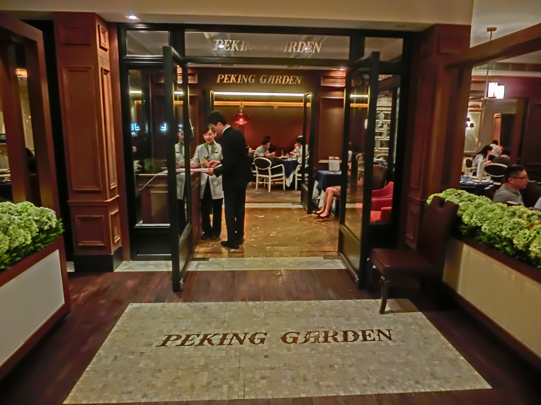 太古廣場, Restaurants in Pacific Place, Queensway, Admiralty, Hong Kong